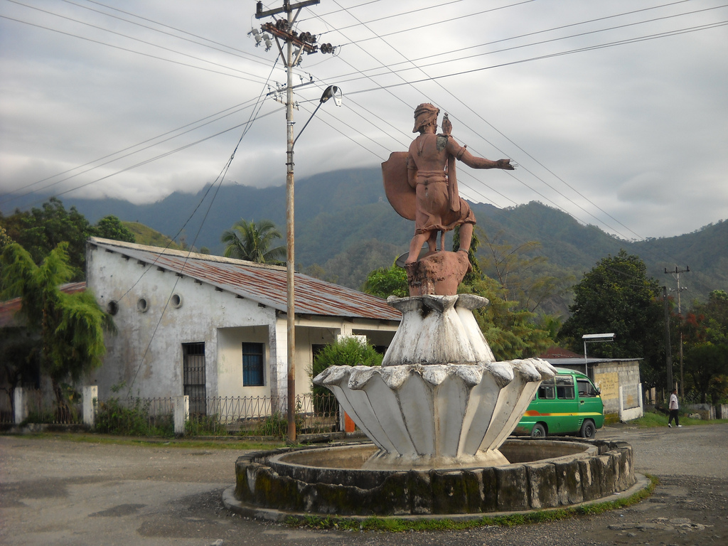 East Timor Portuguese Statue. Photo shows a Portuguese monument that is located in the centre of Same. East Timor. (Rab Manufahi).